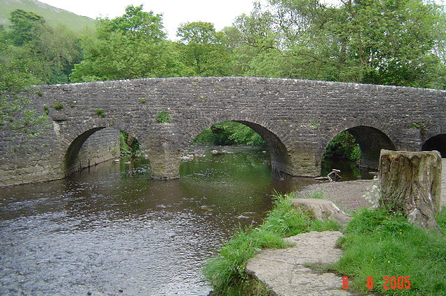 Wetton Mill Bridge. Looking downstream from the west side.